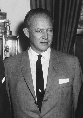 President John F. Kennedy with Governor Stephen McNichols of Colorado and Secretary of the Interior, Stewart Udall